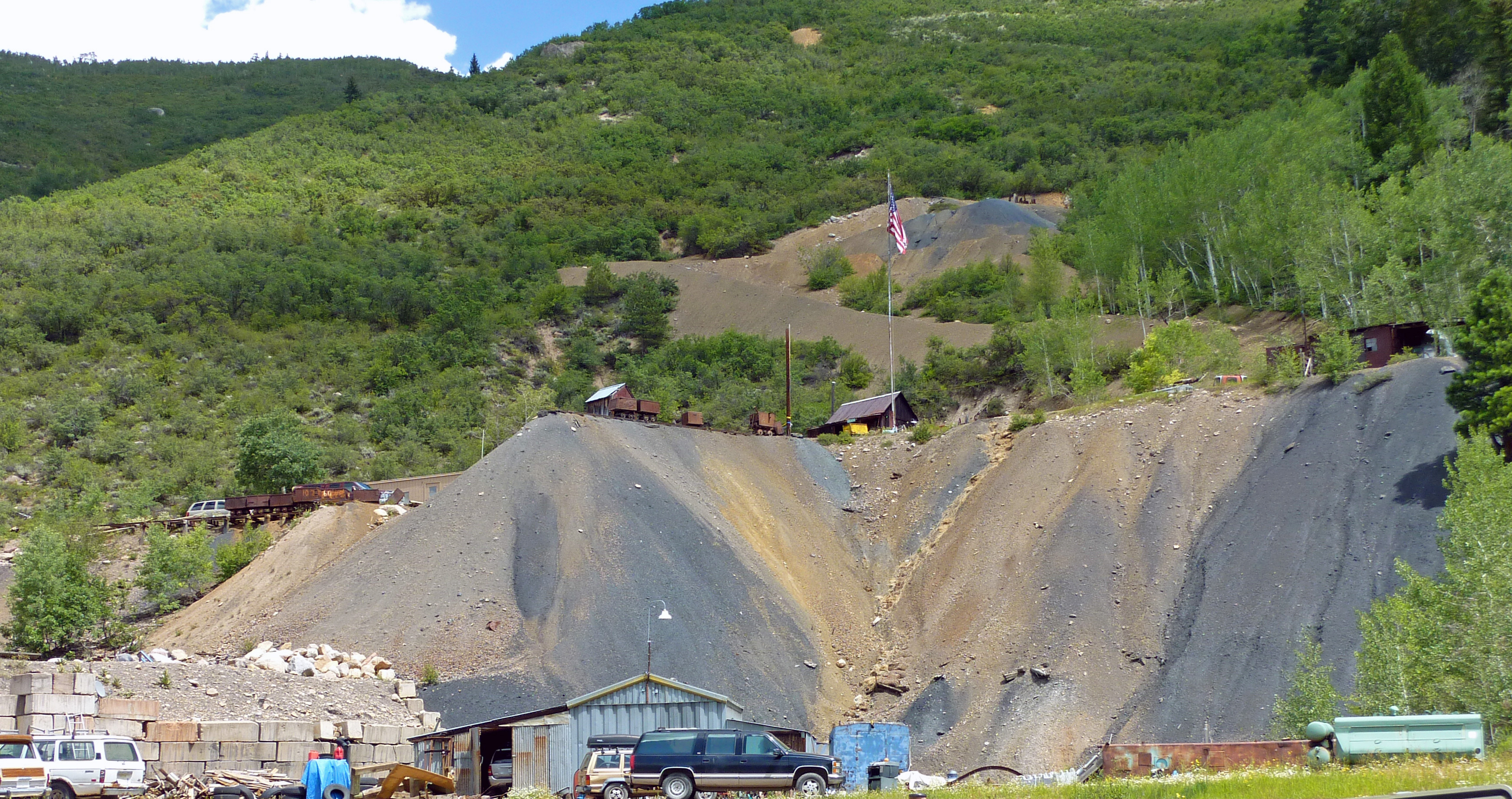 Smuggler Mine, the only working silver mine remaining in Aspen, CO, USA